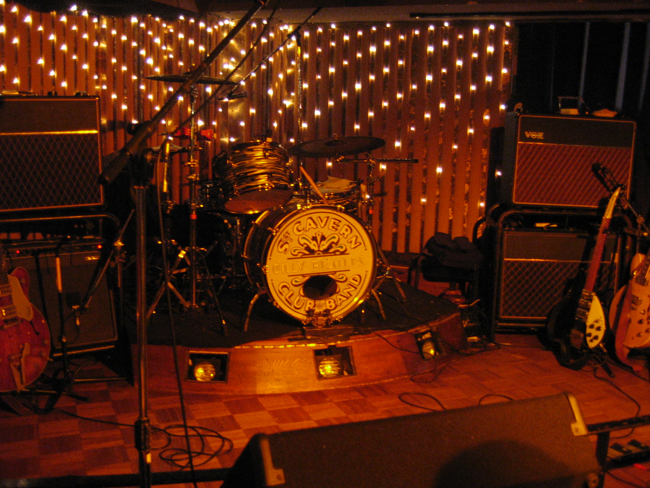 Roppongi Cavern Club